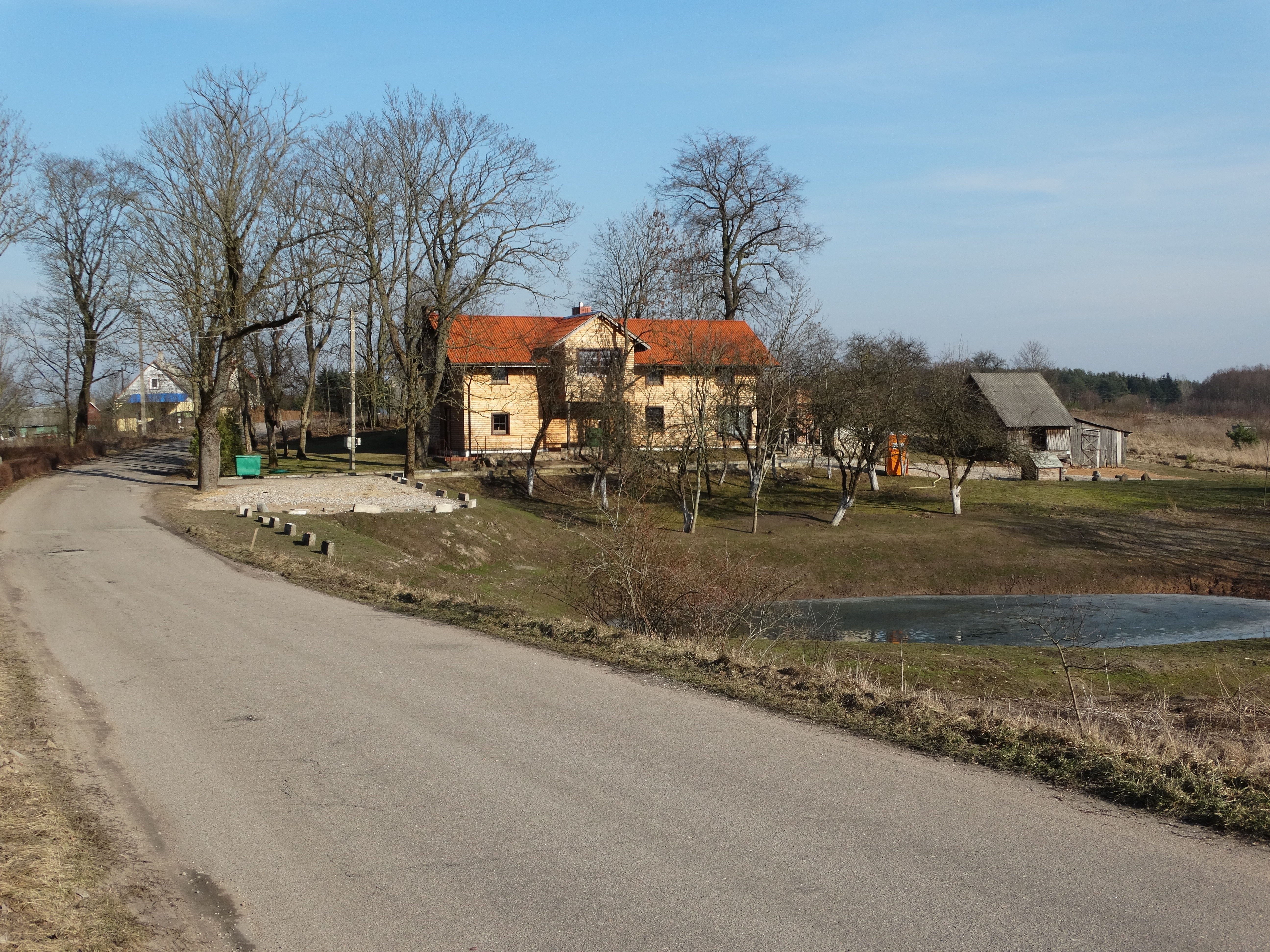 Didžiosios Lapės, Kaunas district, Lithuania